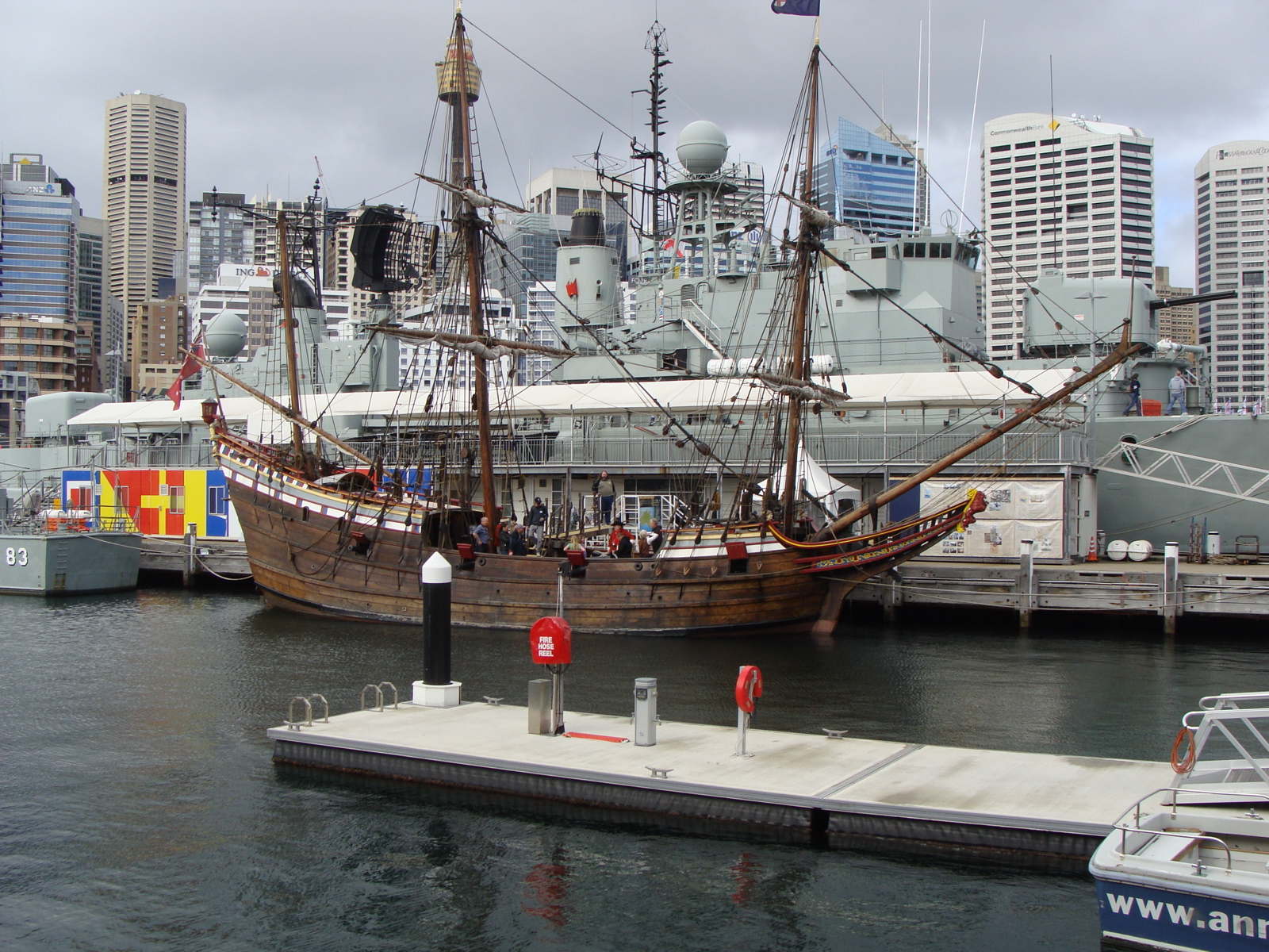 Sydney's Maritime Museum